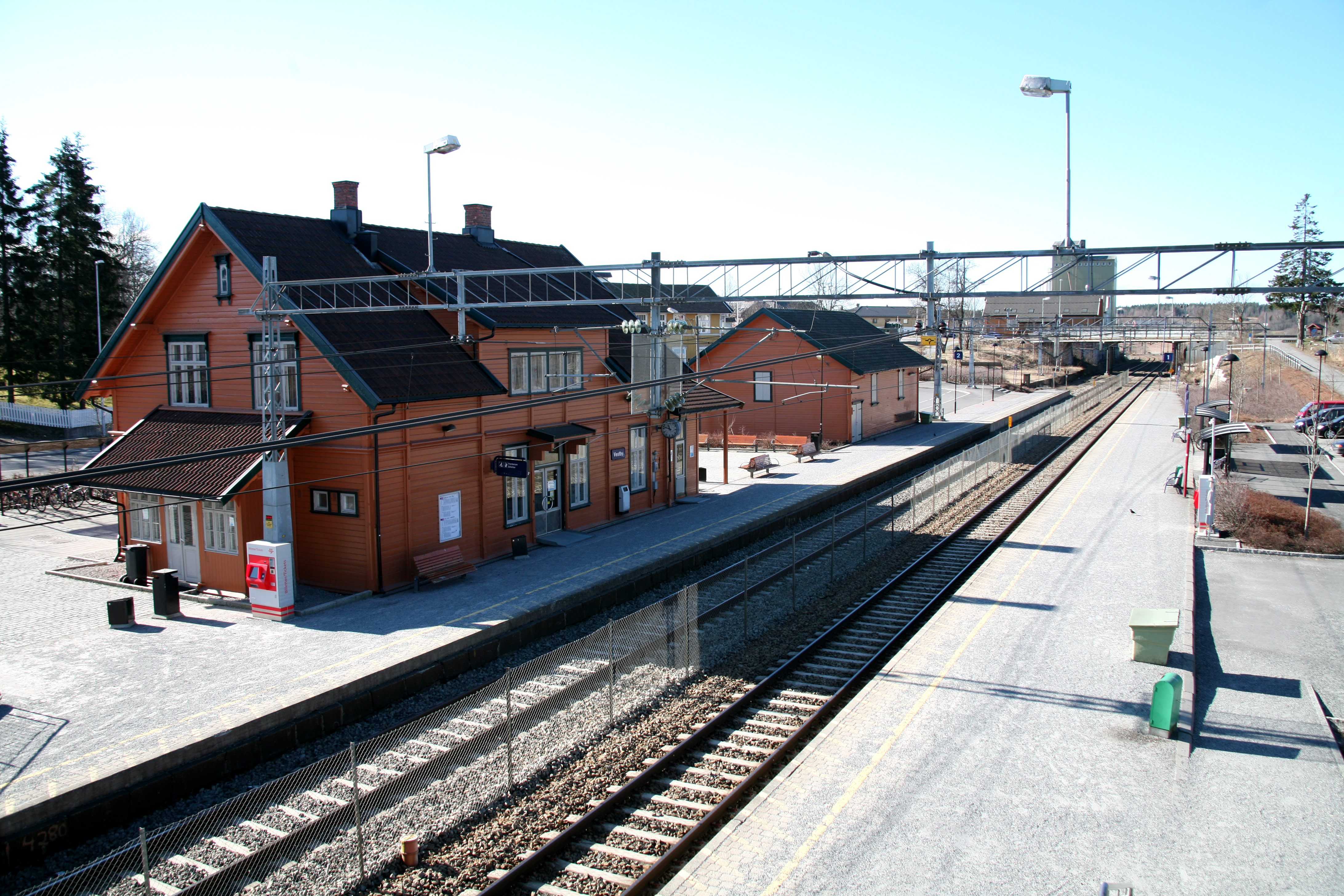 Picture of Vestby Railway Station (Norway)